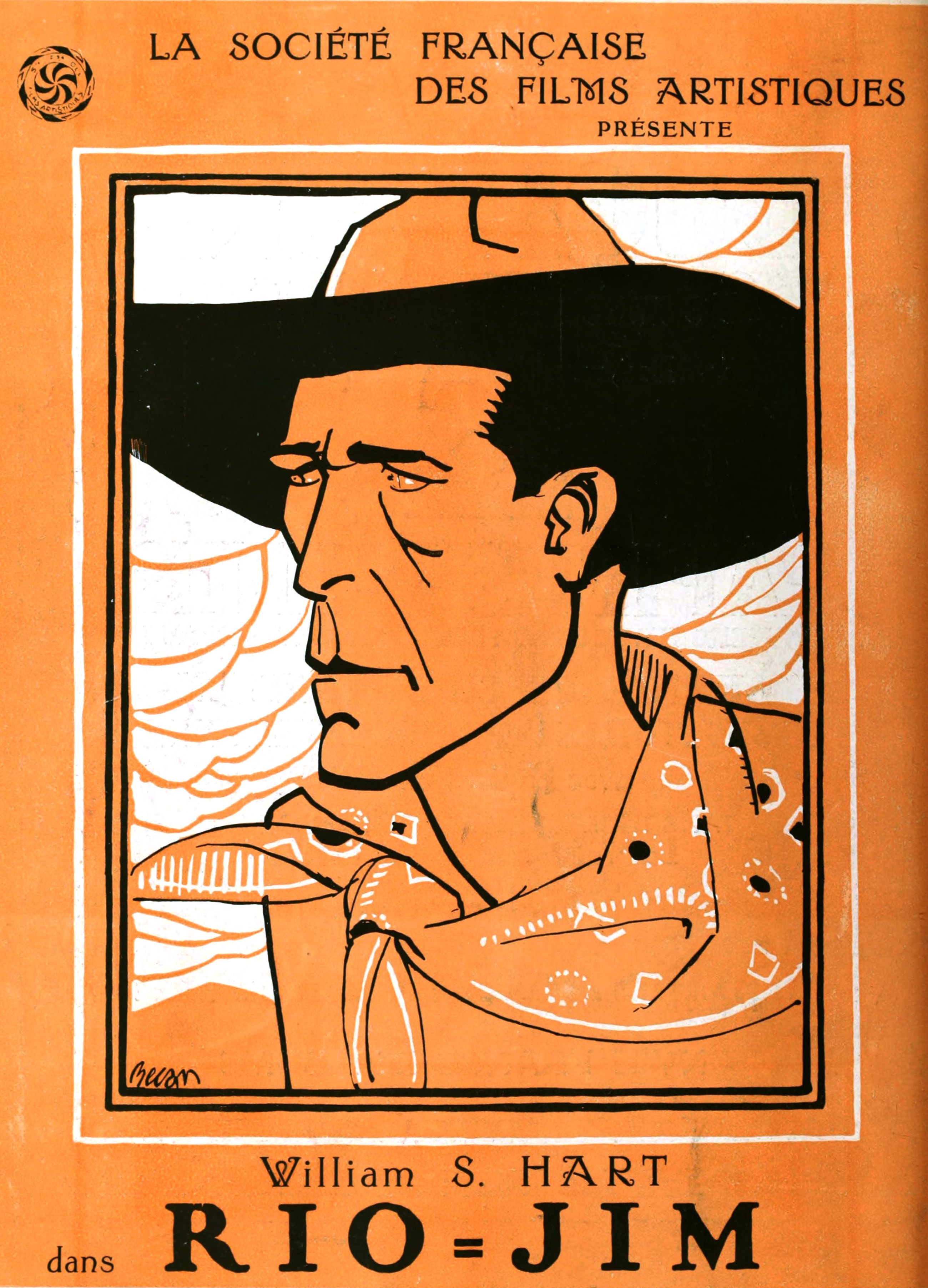 French advertisement for a William S. Hart picture with portrait by Bécan